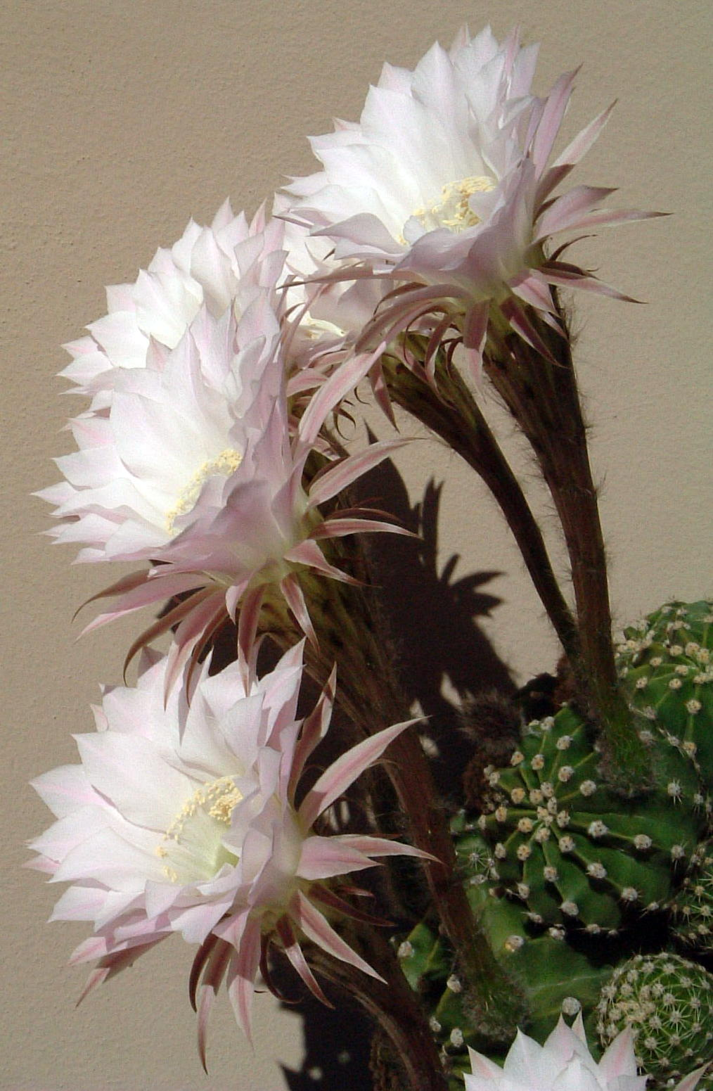 Echinopsis sp. (uploaded as E. multiplex)